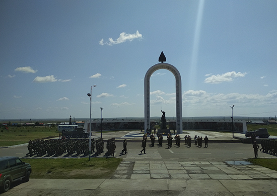 В городе Чойбалсан (Монголия) на площади Независимости у мемориала героям Монголии состоялась тренировка военного парада, посвященного 80-летию победы советско-монгольских войск на реке Халхин-Гол.